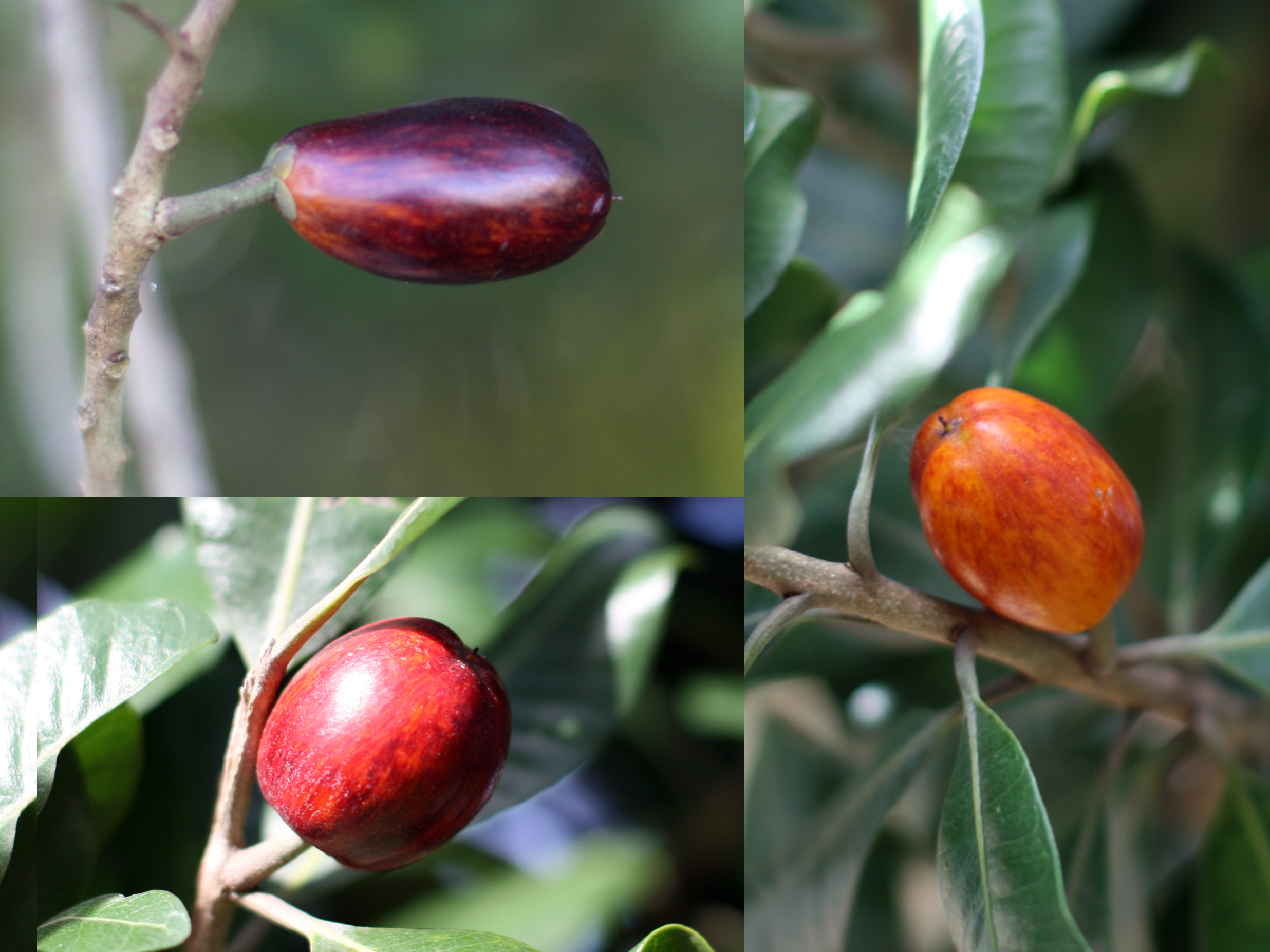 Composite image showing how the fruit of Pouteria costata, Tawāpou or Bastard Ironwood, varies in shape (even on the same tree) and changes colour as it ripens. It is one of the foods of the New Zealand pigeon or Kererū. Auckland, New Zealand